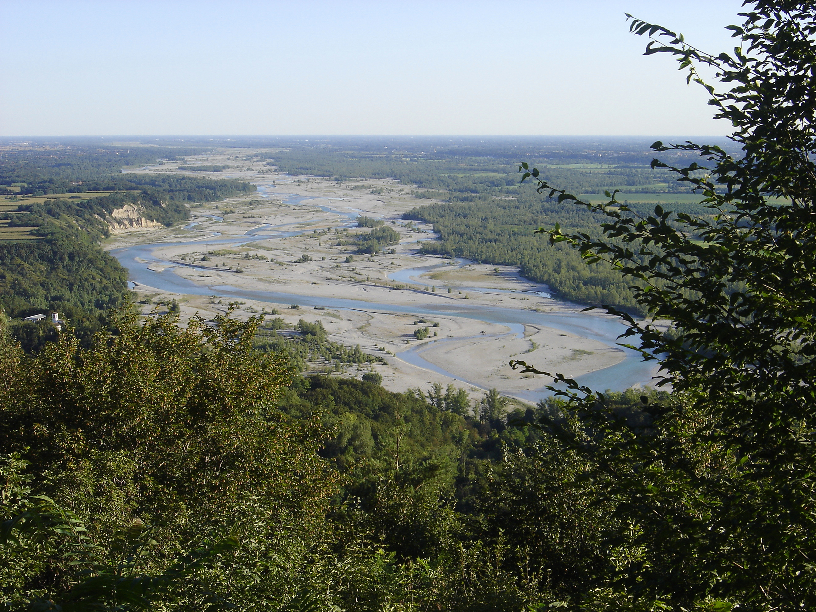 Panorama from Mt. Ragogna south (UD), Italy